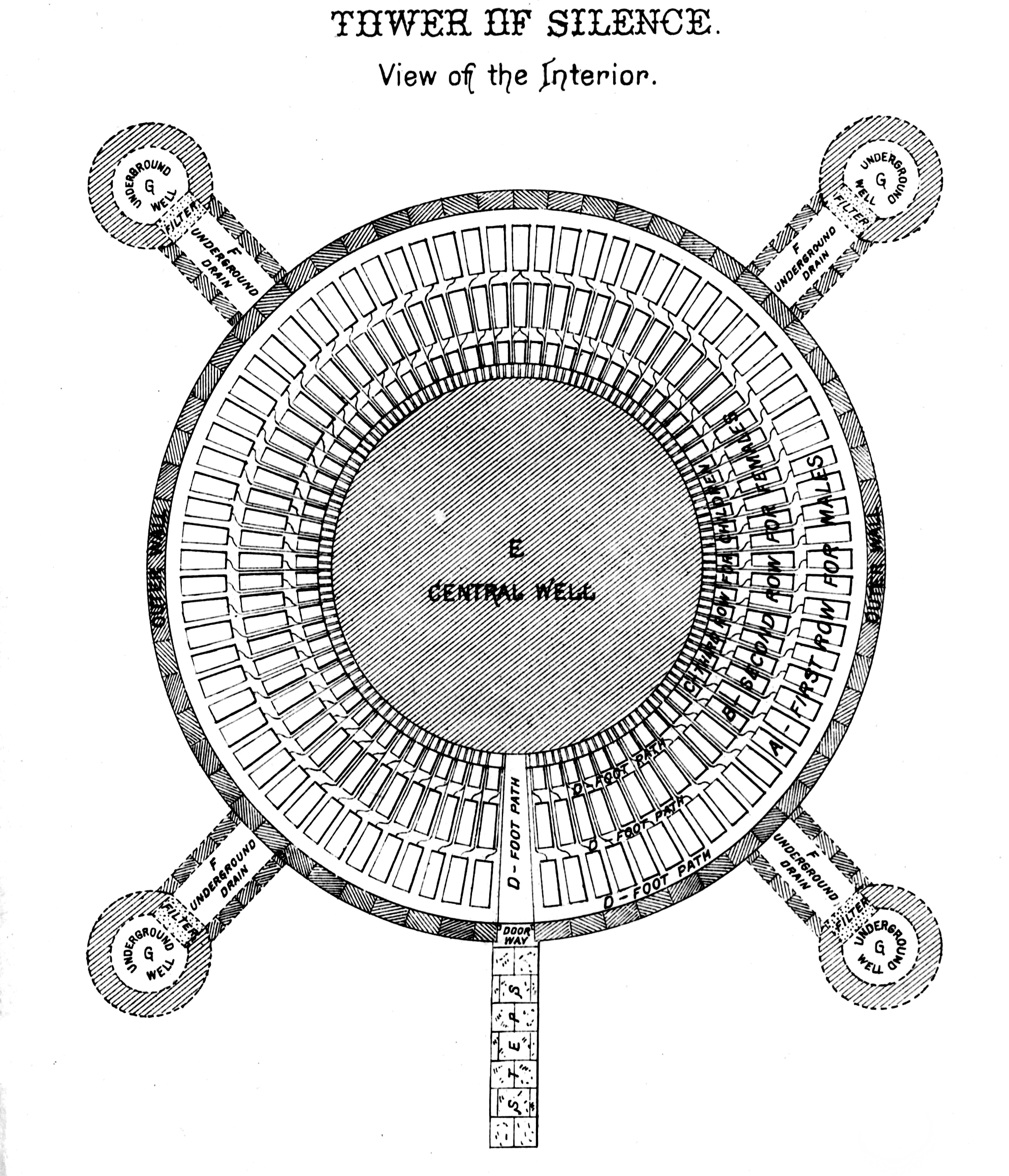 Image taken from: Title: "Gazetteer of the Bombay Presidency. [Edited by Sir James M. Campbell. General index, by R. E. Enthoven.]", "Miscellaneous Official Publications" Contributor: Campbell, James M. (James Macnabb) - Sir Contributor: ENTHOVEN, Reginald Edward. Shelfmark: "British Library HMNTS 10055.g.", "British Library HMNTS 10055.h." Volume: 11 Page: 257 Place of Publishing: Bombay Date of Publishing: 1896 Issuance: monographic Identifier: 000403057 Explore: Find this item in the British Library catalogue, 'Explore'. Open the page in the British Library's itemViewer (page image 257) Download the PDF for this book Image found on book scan 257 (NB not a pagenumber)Download the OCR-derived text for this volume: (plain text) or (json) Click here to see all the illustrations in this book and click here to browse other illustrations published in books in the same year. Order a higher quality version from here.